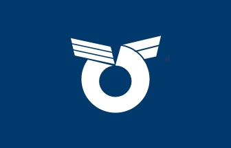 Flag of Mibu Tochigi